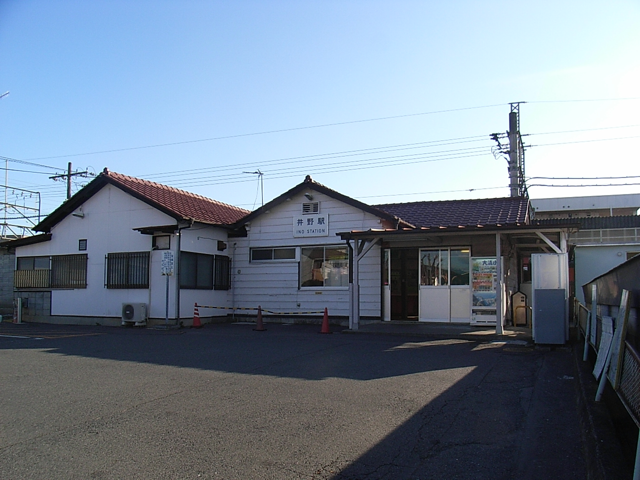 Ino Station (West Entrance)